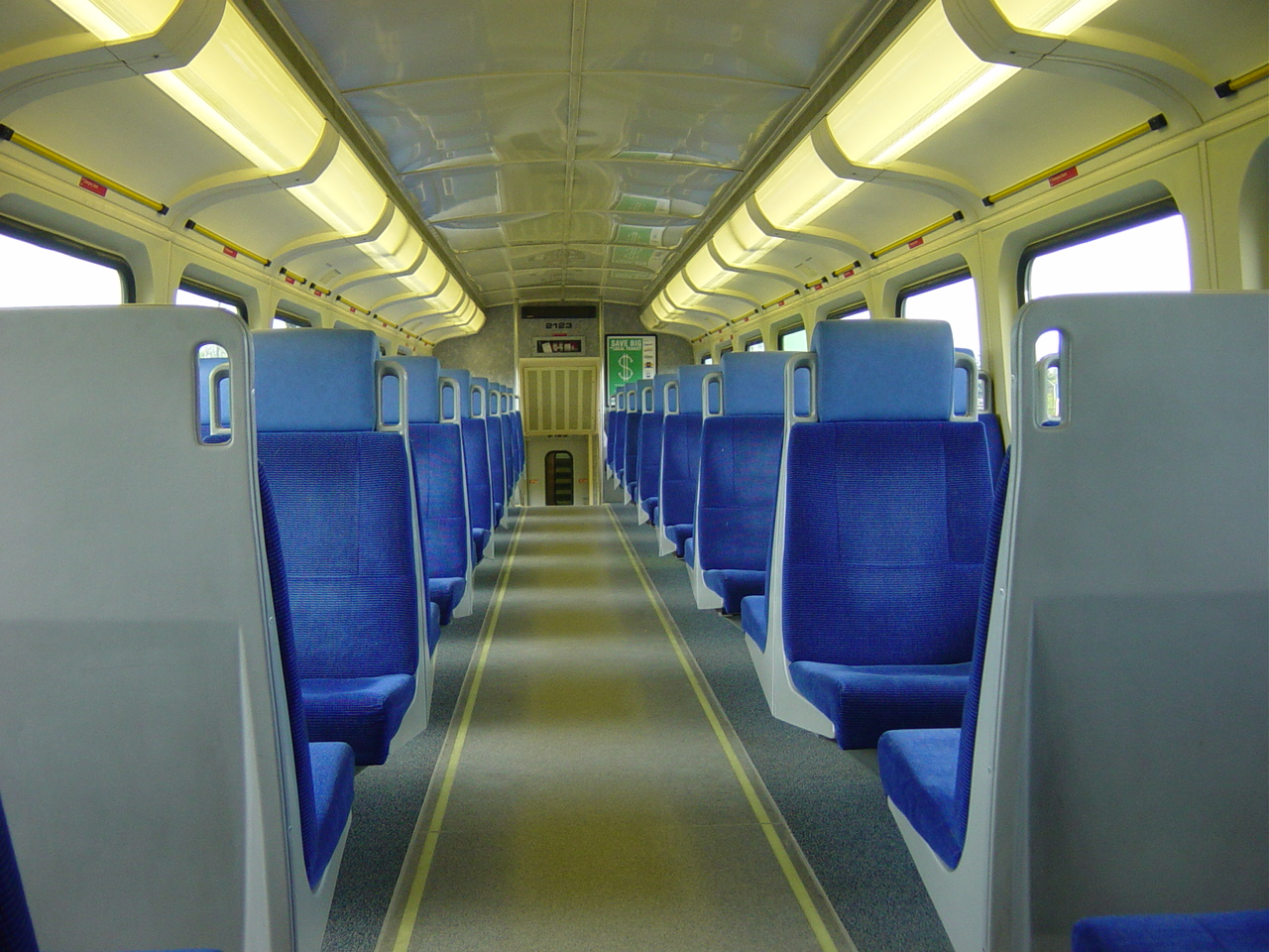 Inside a GO Train's upper deck, stairs leading down to the bottom floor and doors can be seen at the end of the corridor.